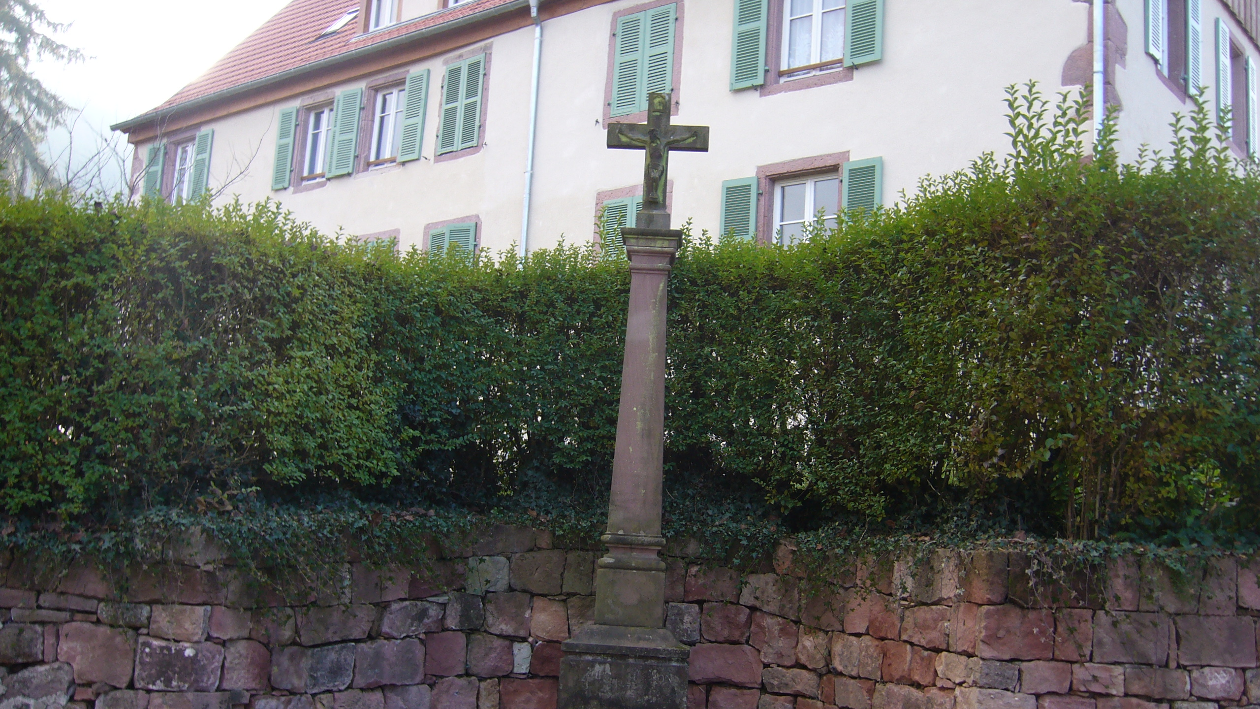 Calvaire Fouchy 005.JPG